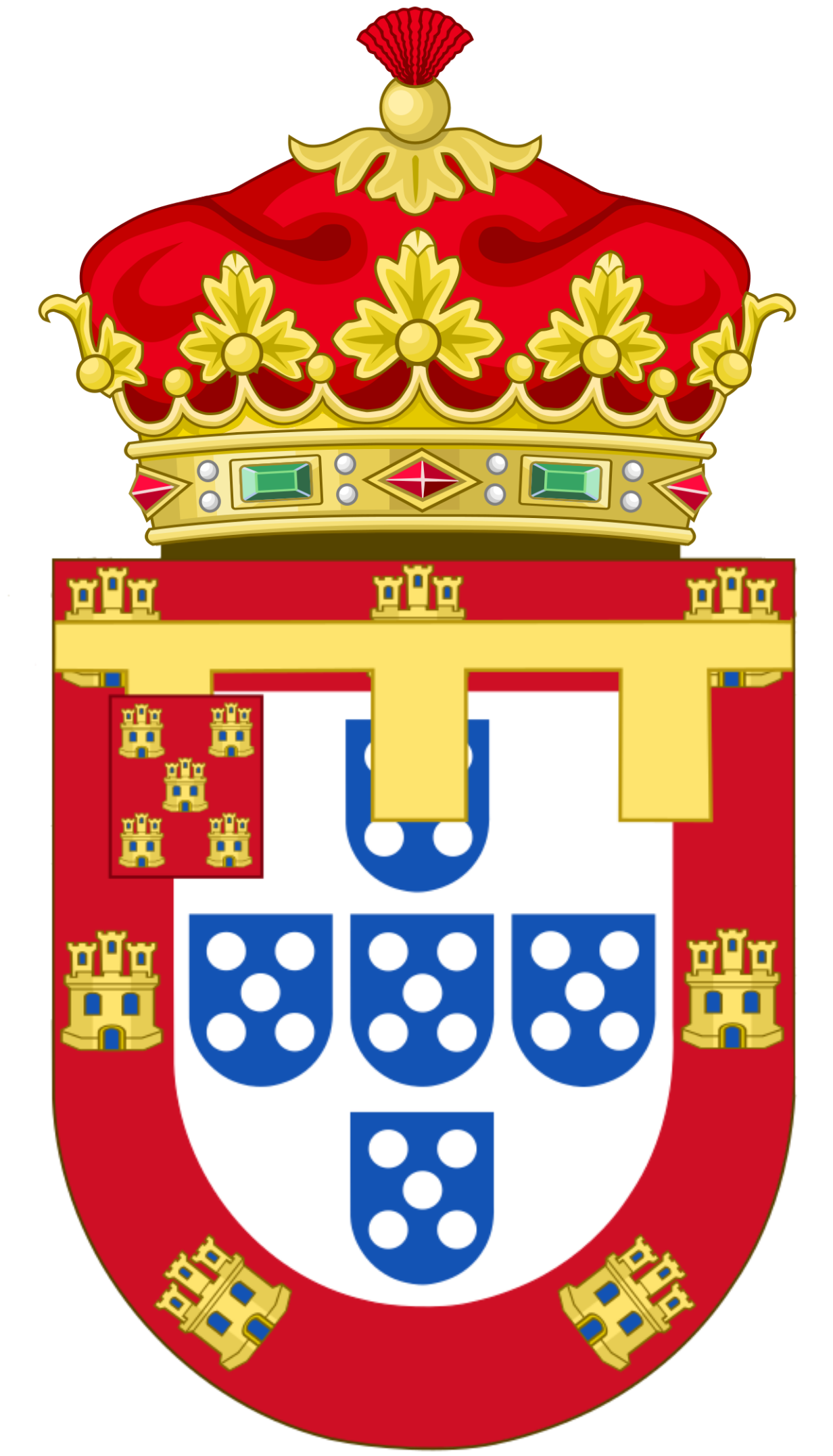 Arms of the first infante (male junior prince) of Portugal Made by JSobral